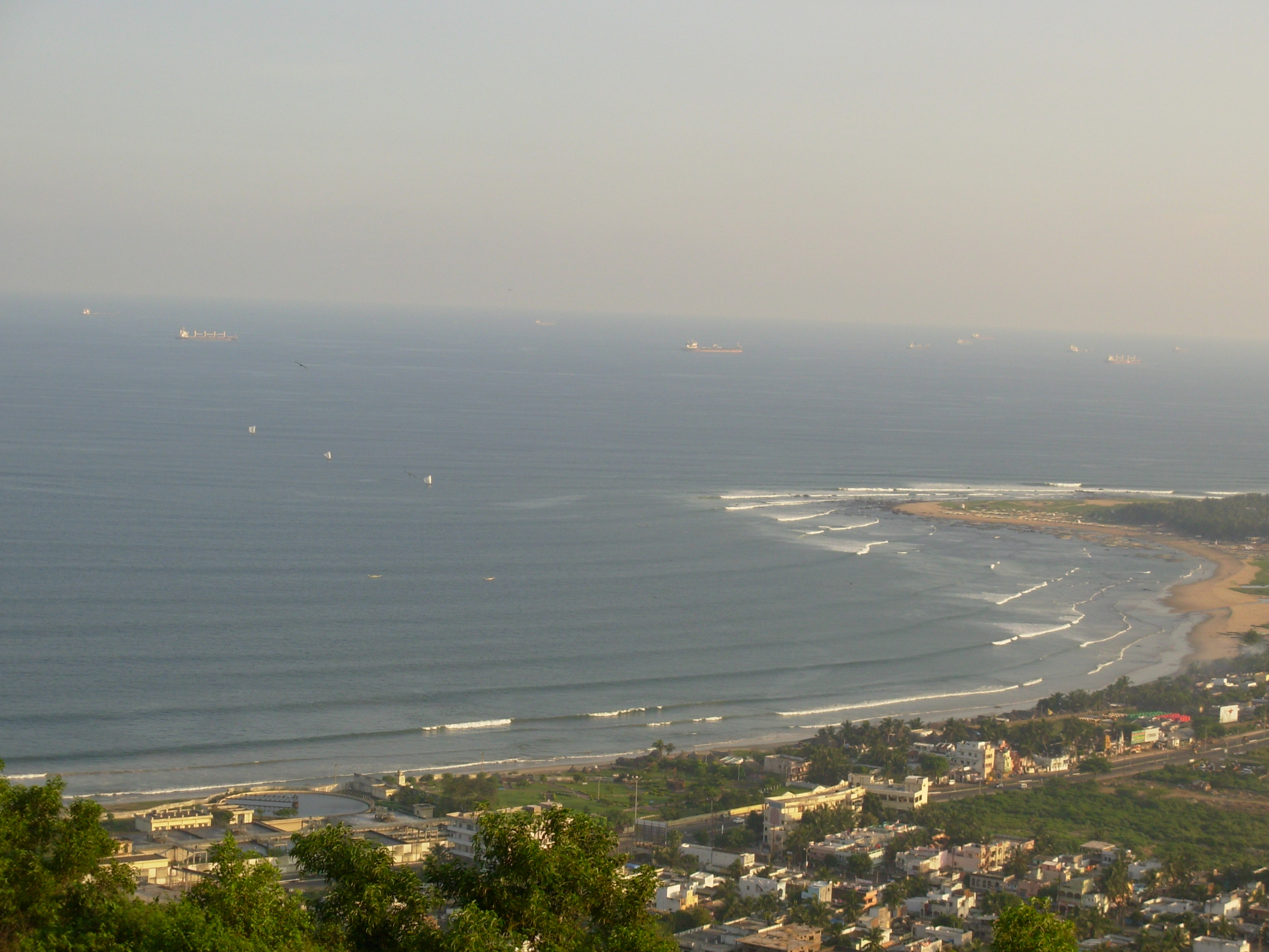 View of Visakhapatnam Sea coast from Kailasagiri Hill